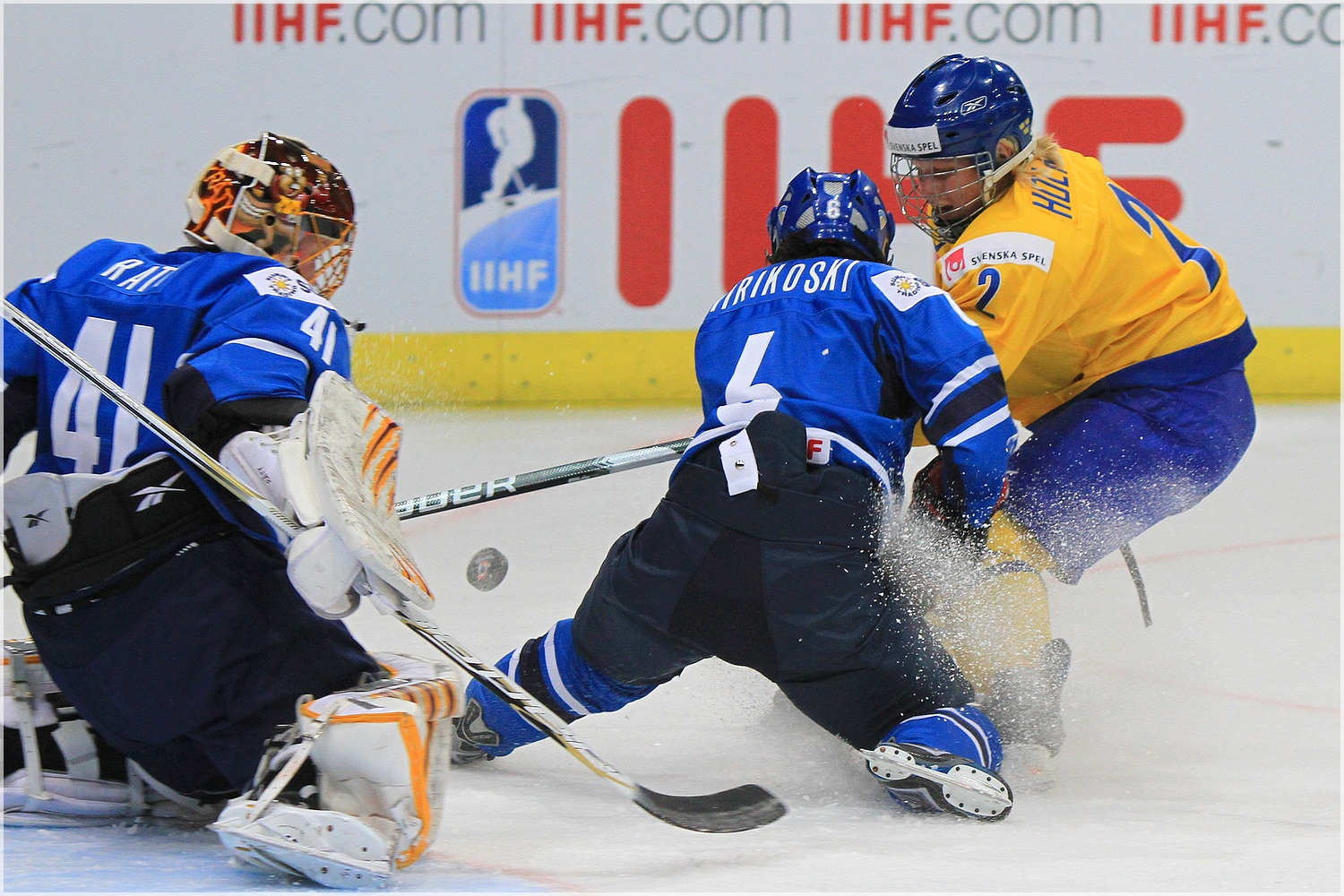 IIHF World Women Championship 2011. Quarterfinal Finland - Sweden 5-1.